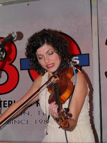 Carrie Rodriguez performing at Waterloo Records in Austin, TX. Photo by Ron Baker (2013).